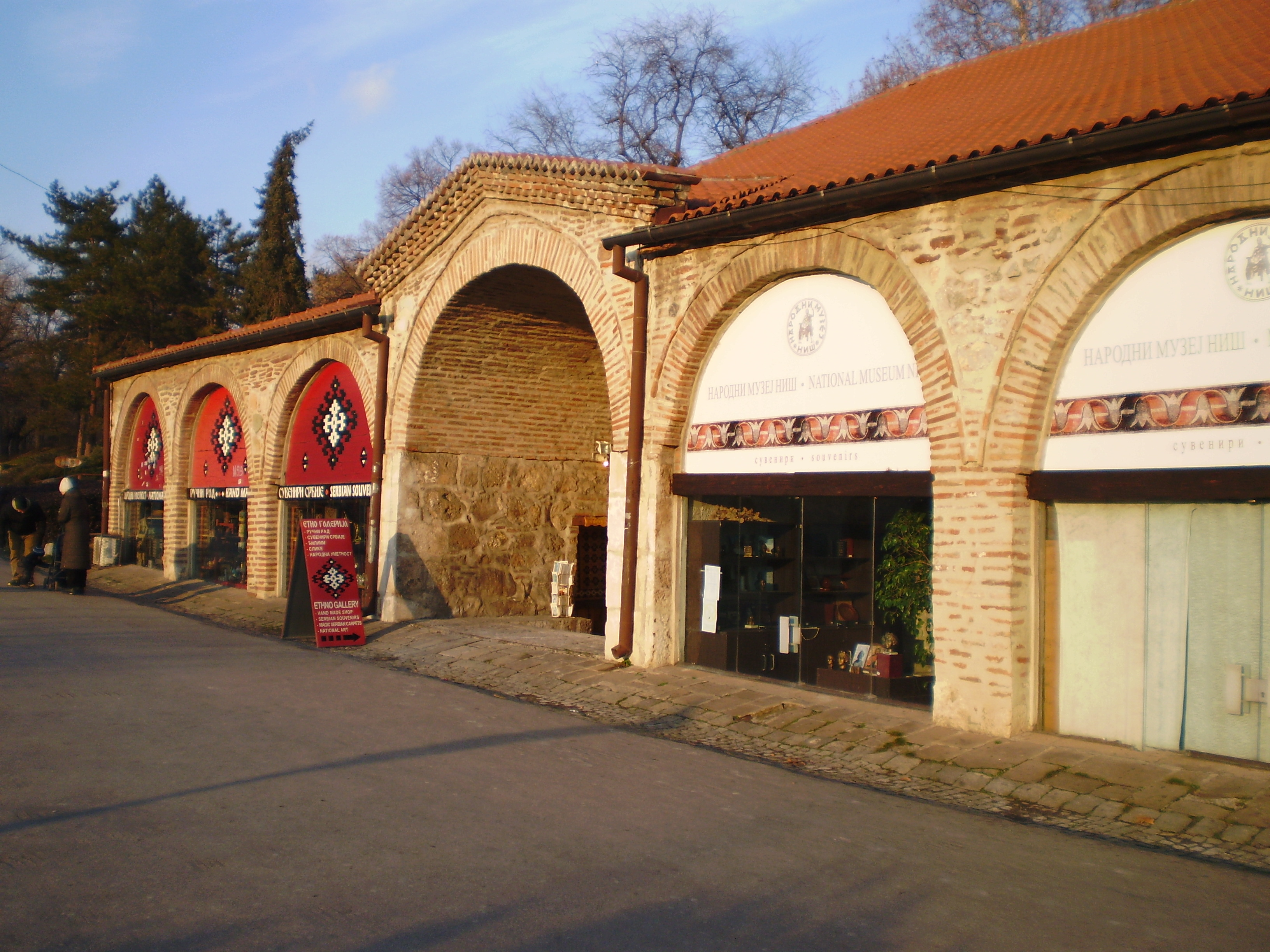 The Gallery of Contemporary Fine Arts Niš, Serbia-Pavillion the Fortress (a former Turkish arsenal) Srpski (latinica): GSLU Niš, Paviljon u Niškoj tvrđavi (nekadašnji turski arsenal). Autor dr Milorad Dimić